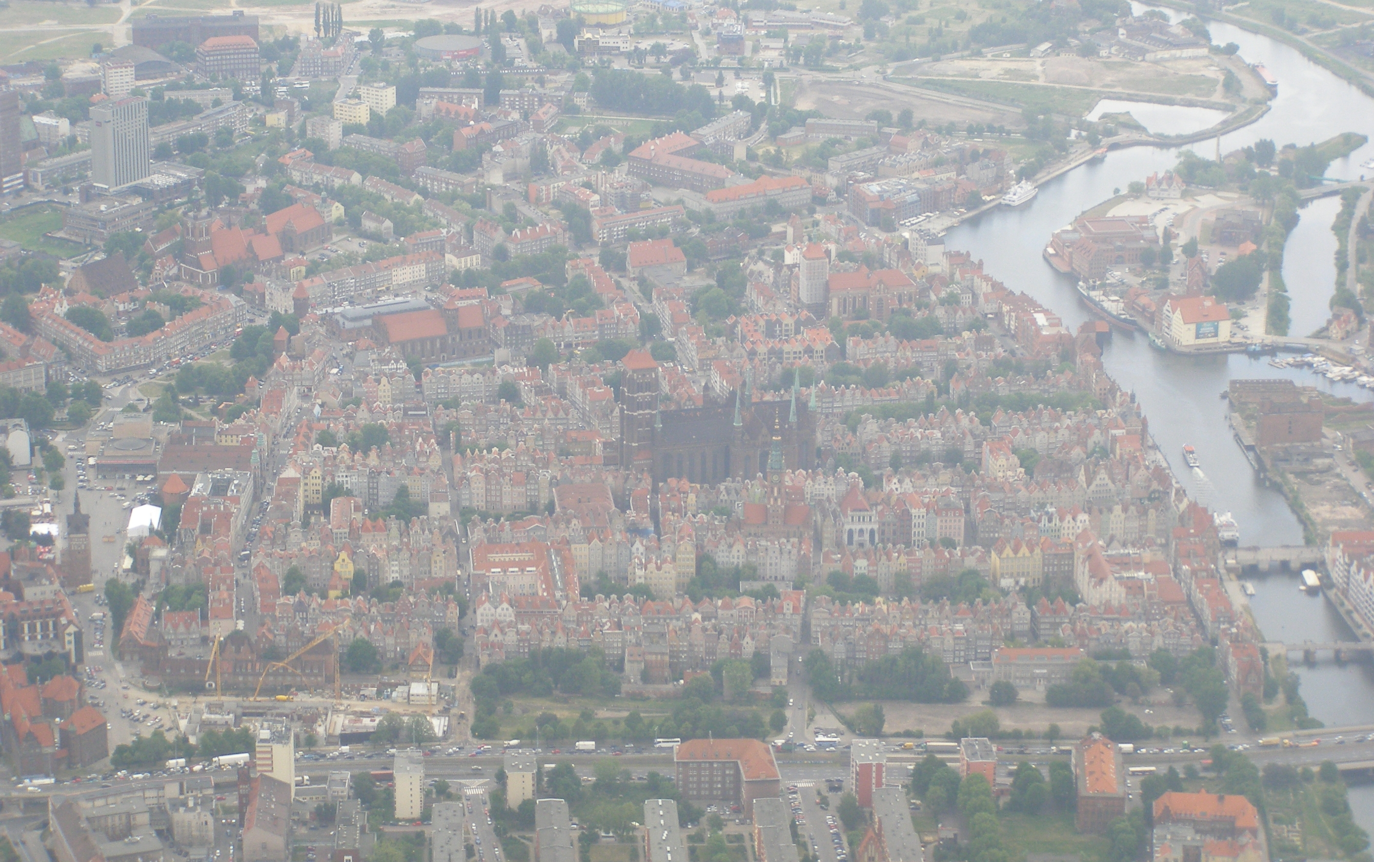 Gdańsk - view to the Main Town and the Old Town